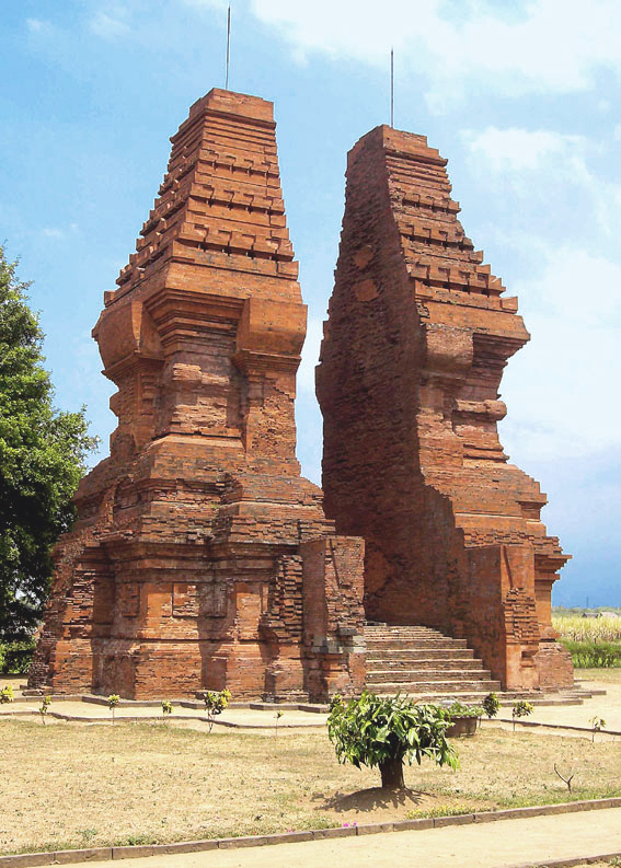 Wringin Lawang (lit: The Banyan Tree Gate), the 14th century grand split gate, made from red brick material with ground size 13 x 11 meter and height 5.5 meter. Located at short distance south of the main road at Jatipasar, Trowulan, Mojokerto, East Java. The type of this gate is called "Candi Bentar" or split gateway, a type of structure which suggested appear during the Majapahit era. Most historian agreed that this structure is the gate of an important compound in Majapahit capital. Speculations concerning the original function of this majestic gateway have led to various suggetions, a popular one being that it was the entrance to the residence of Gajah Mada.